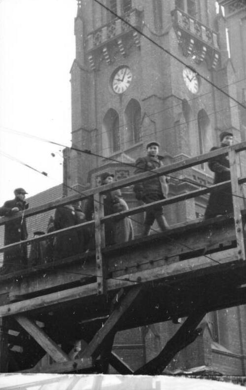 Ghetto Litzmannstadt, a footbridge over Hohensteiner Straße (now Zgierska street) at Sulzfelder Straße (now Wojska Polskiego Street) cross.